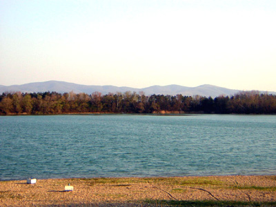 Lake Šljunkara near Bela Crkva, Serbia